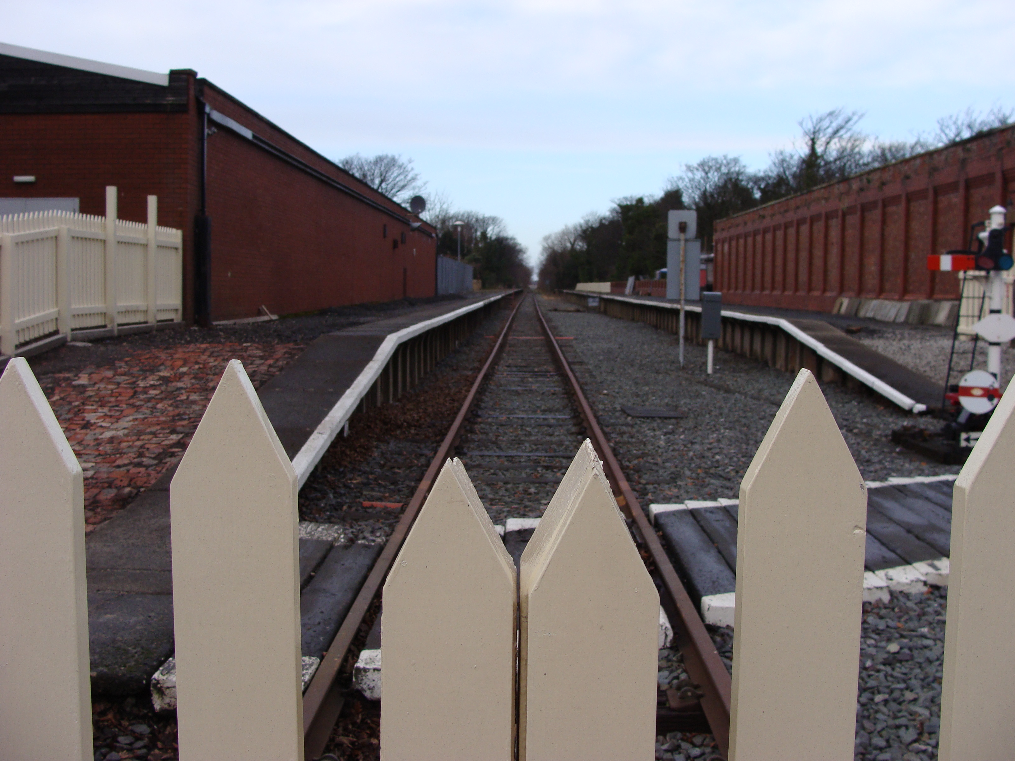 Thornton-Cleveleys Station from Station Road Level Crossing 2014